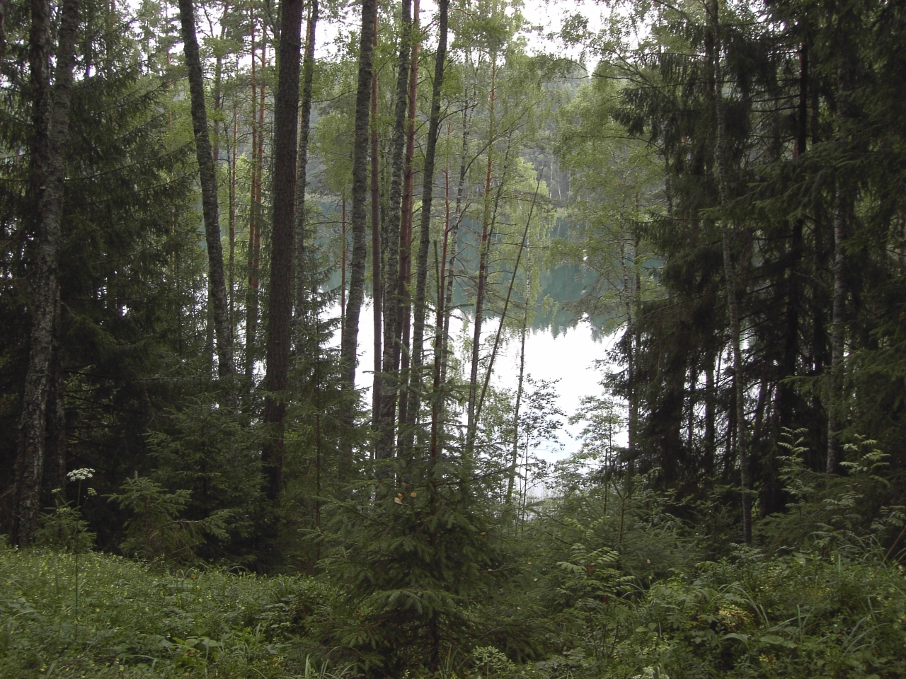 Lake Baltys near Trainiškis, Ignalina district, Lithuania